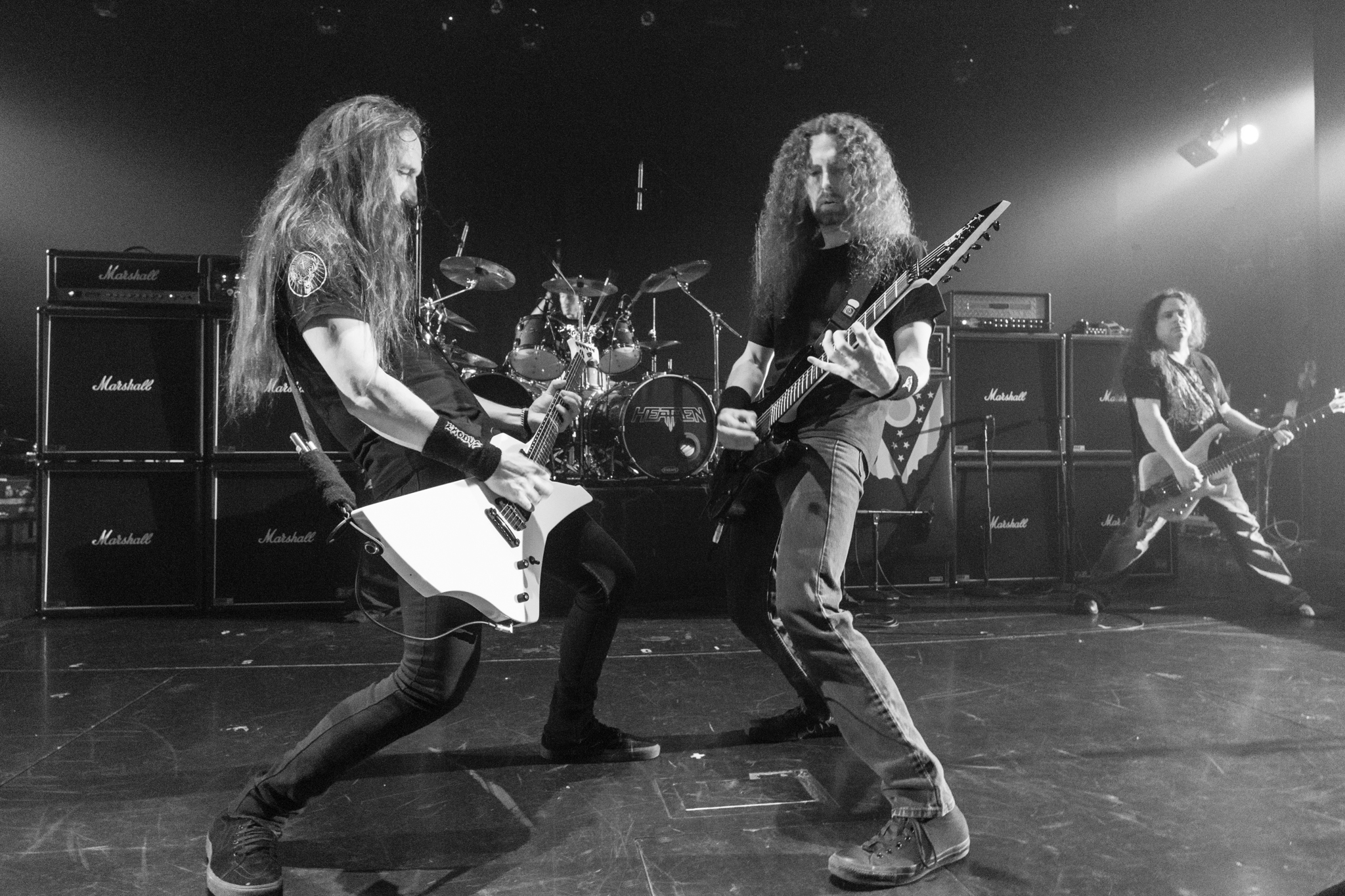 Heathen performing at 70.000 tons of metal, january 2015